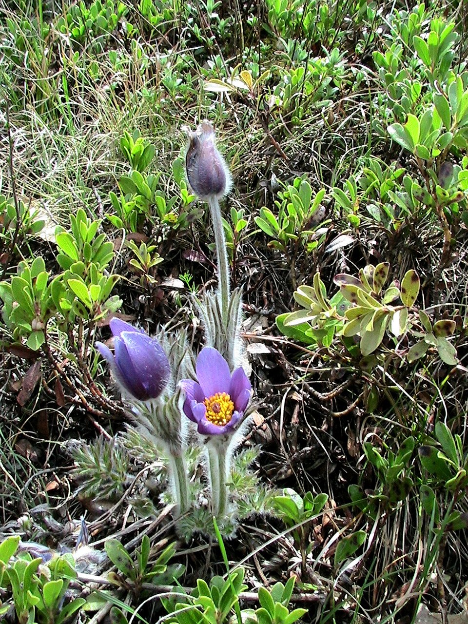 Pulsatilla rubra. In Montsec de Rúbies (Pallars Jussà - Catalunya). To 1.440 m. altitude